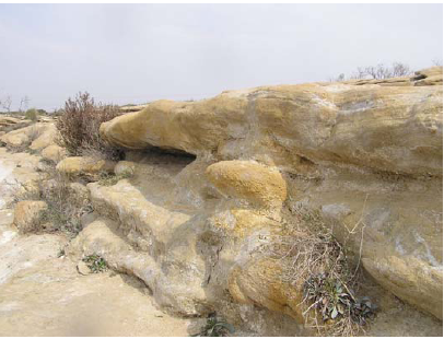 Geomorfología Laguna salada de Chiprana